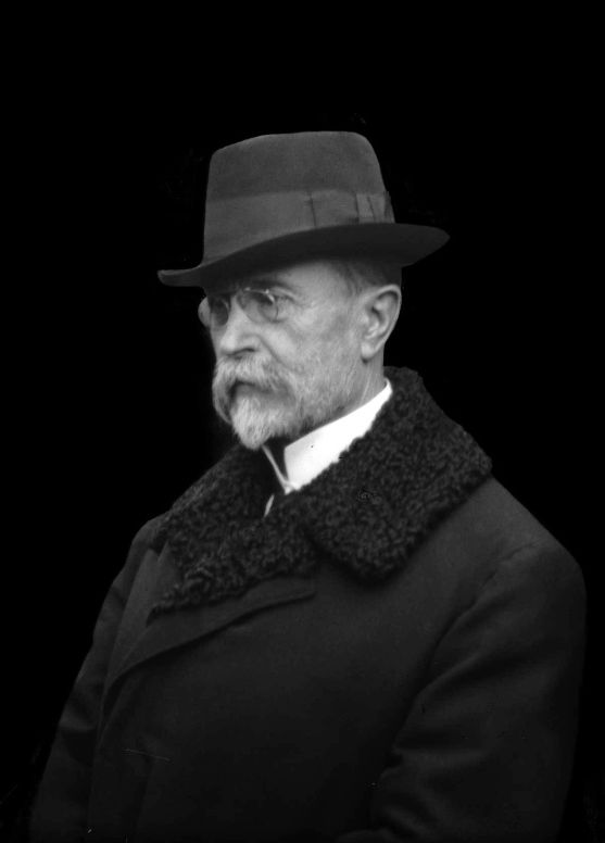 Tomáš Garrigue Masaryk – first president of Czechoslovakia leaving train on his stopover in Tábor on his return journey to Prague.